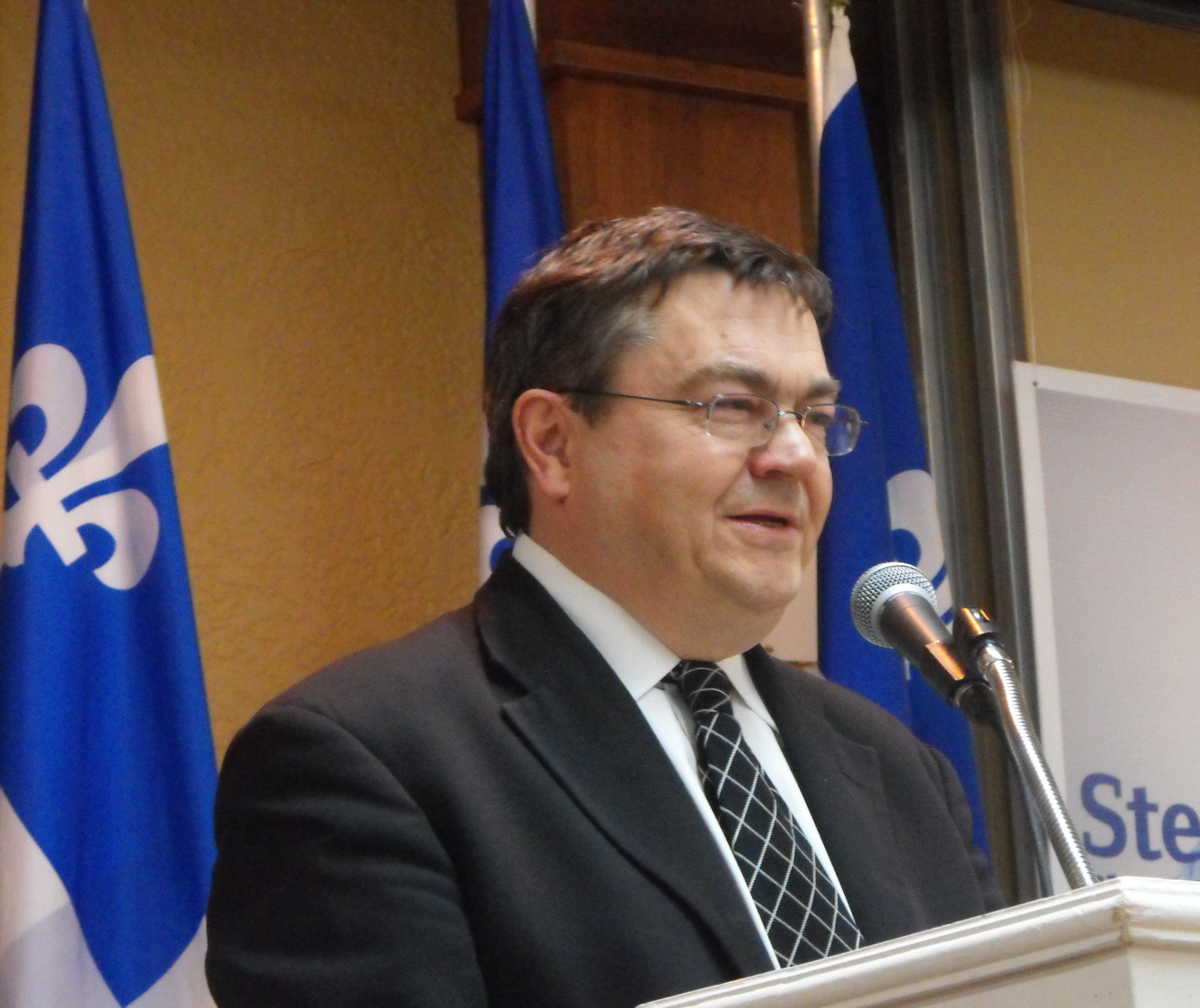 The Bloc Québécois Member of Parliament in the federal riding of Montmagny—L'Islet—Kamouraska—Rivière-du-Loup in Canada, Paul Crête.